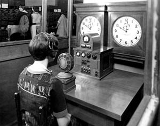 Operator reads time for speaking clock service prior to development of automated systems.